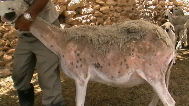 Photosensitization to Hypericum tomentosum in a Sardi ewe : downer whoolless surfaces are involved Walon: Fototinrûlijhaedje a cåze del boylete a ene berbis "Sardi" côps d' solea so li dzo do coir, sins linne.